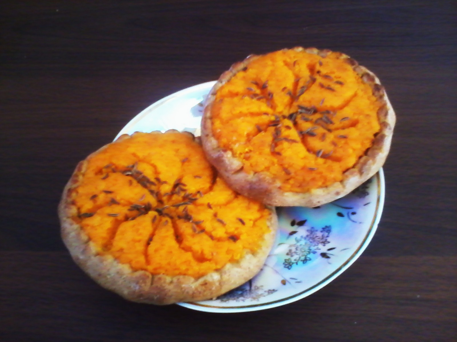 Sklandrausises